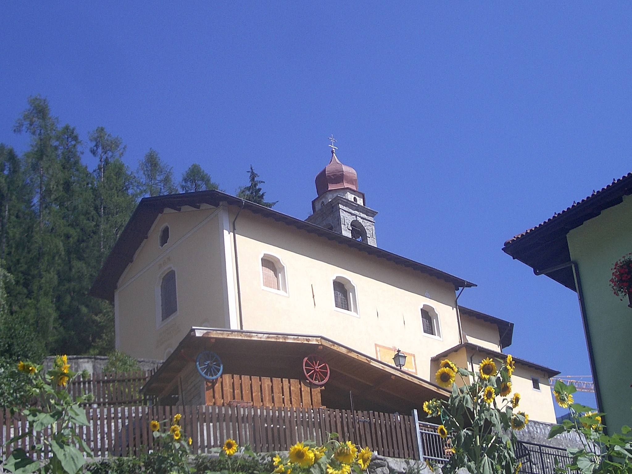 Carisolo, the parish church dedicated to San Nicolò